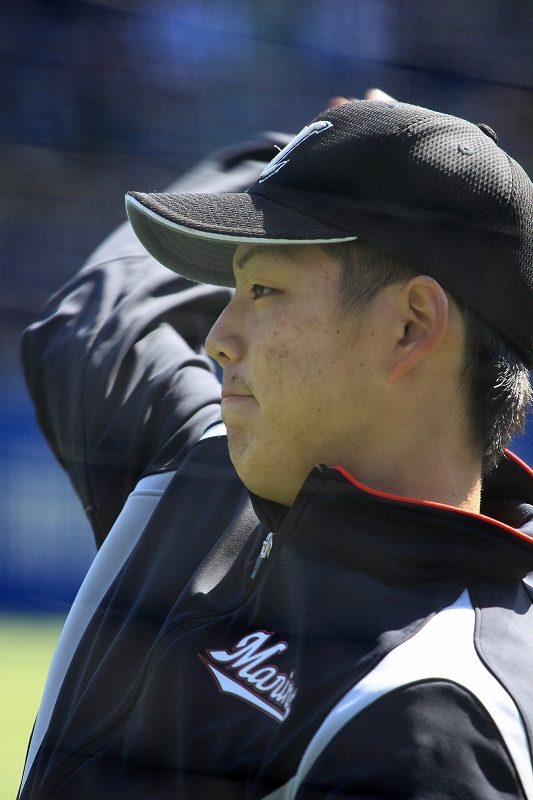 Ryuzo Hijii, catcher of the Chiba Lotte Marines.